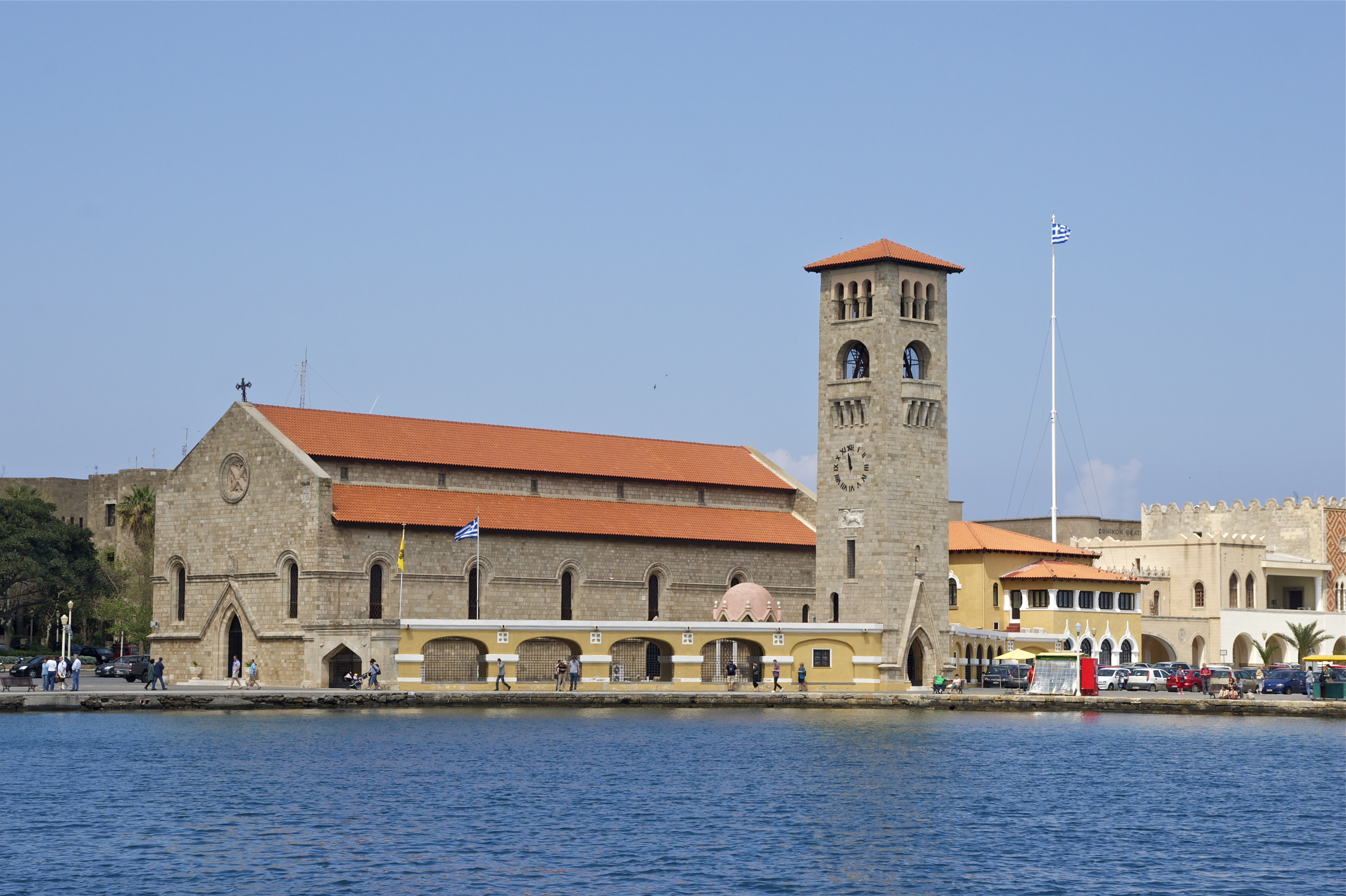 Church of the Evangelismos, greek orthodox cathedral of Rhodes and the Dodecanese. Former catholic cathedral dedicated to Saint-John, built by Italians in 1924 - 1925, according to the old plans of the church built by the Knights of Rhodes in the 14th century.The Italian name was Cattedrale di San Giovanni and the architect was Florestano Di Fausto. Harbour of Rhodes. View from the sea.